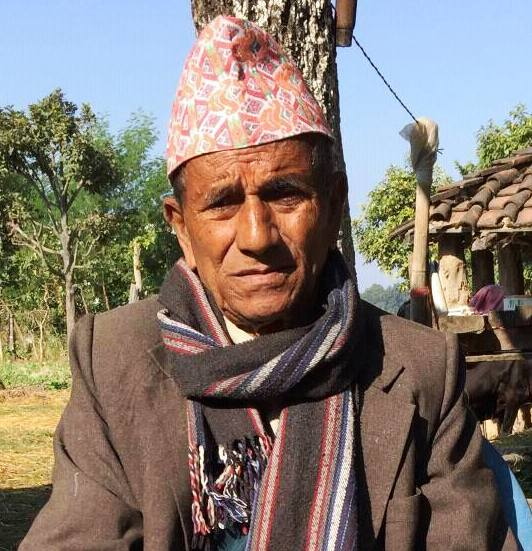 ghanteshwer ka mali